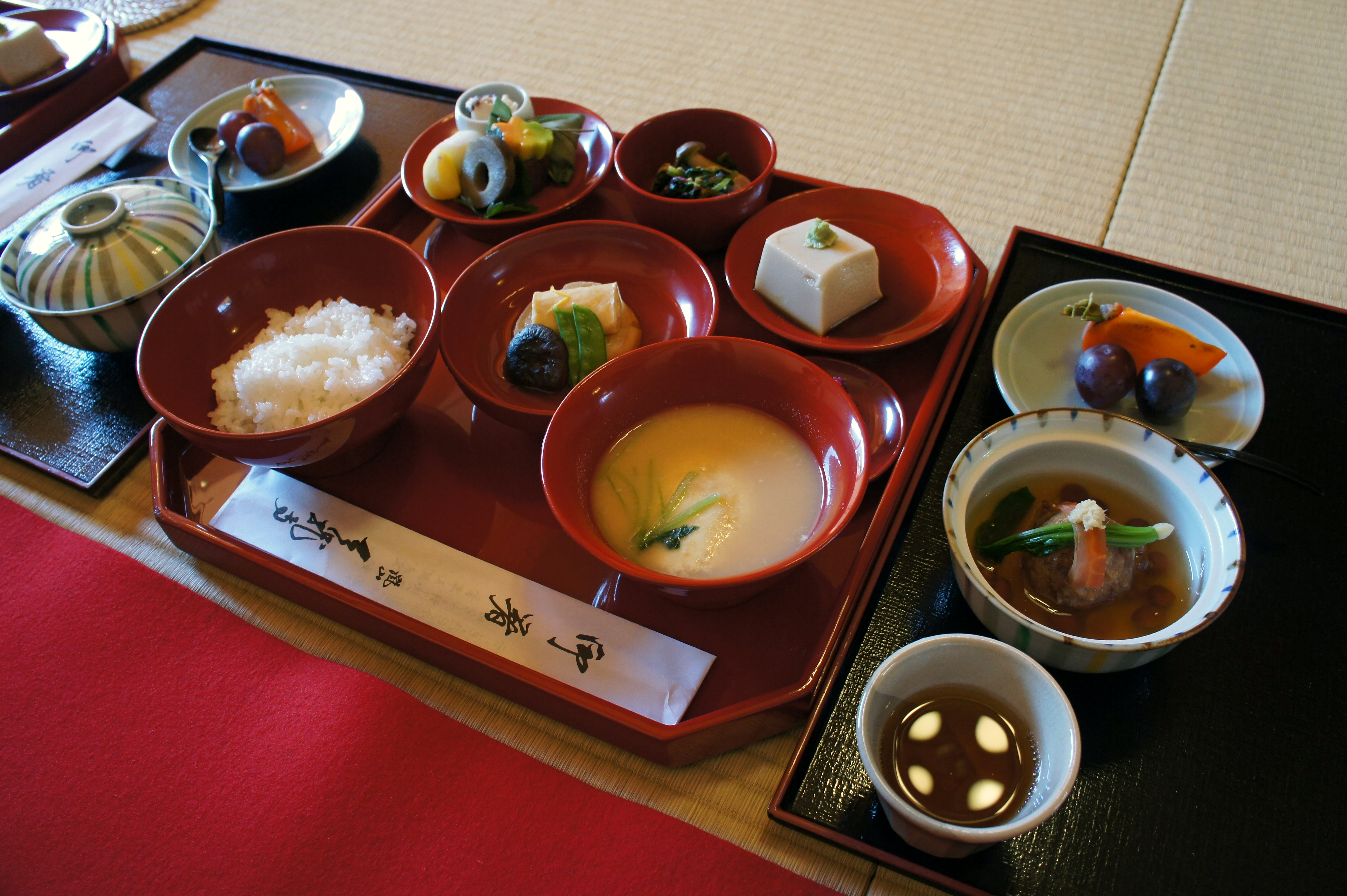 Tenryū-ji in Ukyō-ku, Kyoto, Kyoto prefecture, Japan